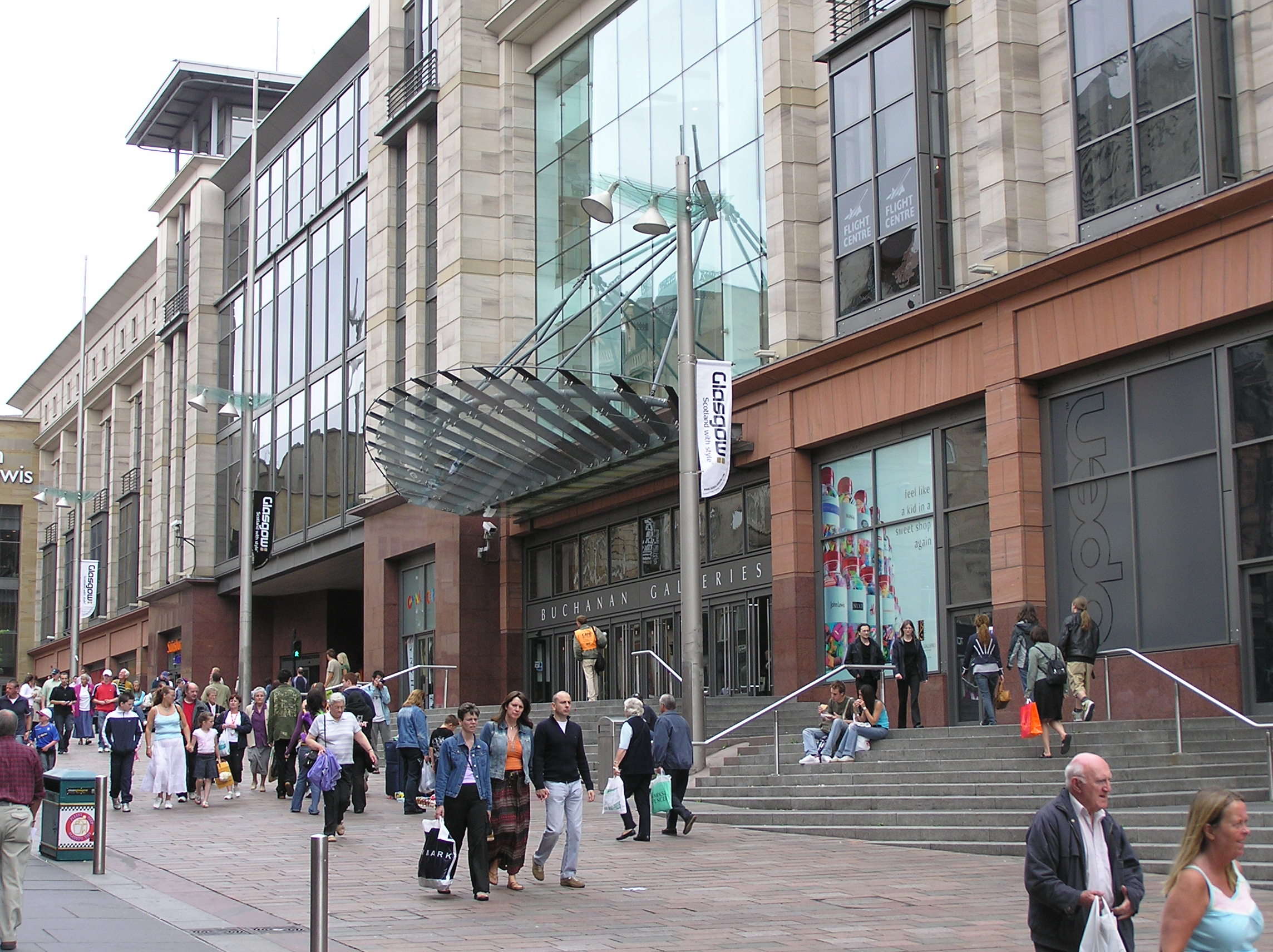 The exterior of the Buchanan Galleries shopping centre on Buchanan Street, Glasgow, Scotland.